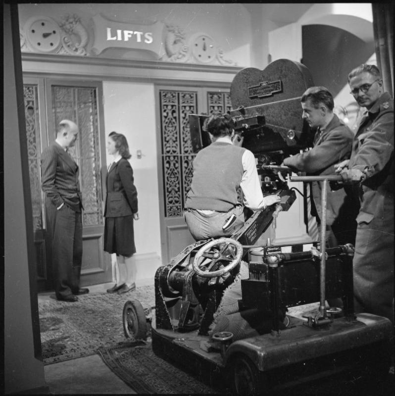 Birth of a Star- Everyday Life For Actress Muriel Pavlow, England, UK, 1945 Actress Muriel Pavlow talks to director Lawrence Huntington on the set of the film 'Night Boat to Dublin', being made at Welwyn Garden Studios. The camera crew are carrying out a film test on set and can be clearly seen on the right of the photograph. According to the original caption, as well as directing the film, Lawrence Huntington also wrote the script for it.